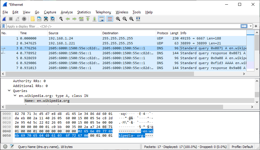 Screenshot of network packet capture showing network packet requesting DNS information for